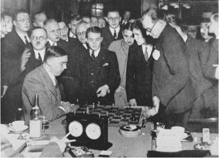 Euwe, after one of the games from the 1935 Alekhine-Euwe match. The middle-aged man behind Euwe with the moustache is Milan Vidmar. The young man in a dark suit, right of Euwe, is Salo Flohr. The standing figure opposite Euwe may be Alekhine.